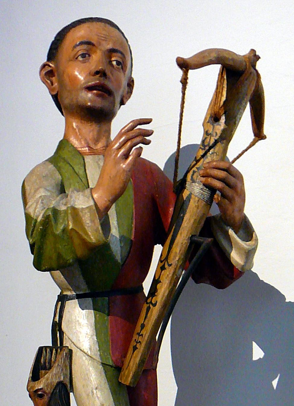 Crossbowman executing Saint Sebastian. Detail of a figure from the Upper Rhine, around 1480; linden wood, Bayerisches Nationalmuseum, München, inventory number 79/355